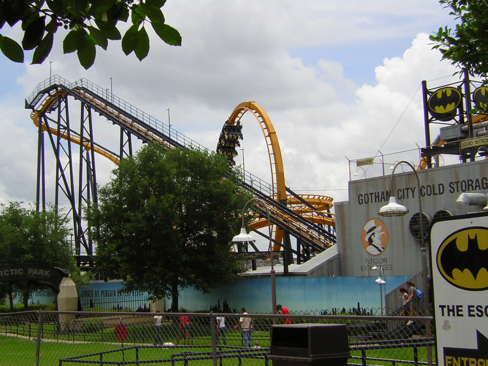 A nice standup coaster designed by B&M when they were still at Intamin.